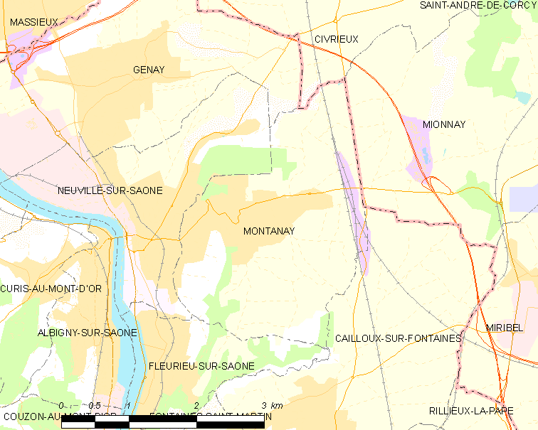 Map of French municipality